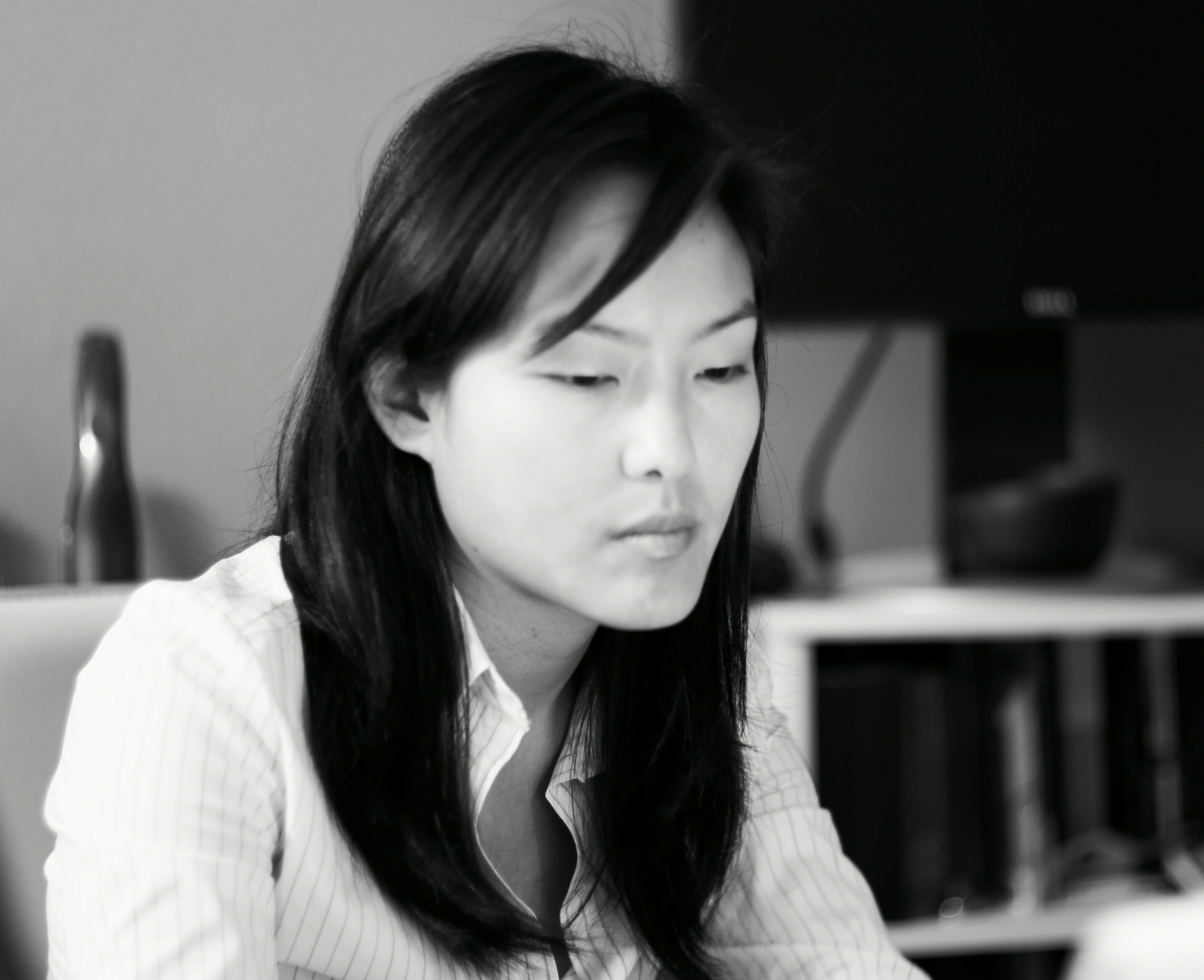 San Francisco Board of Education member Jane Kim reading.